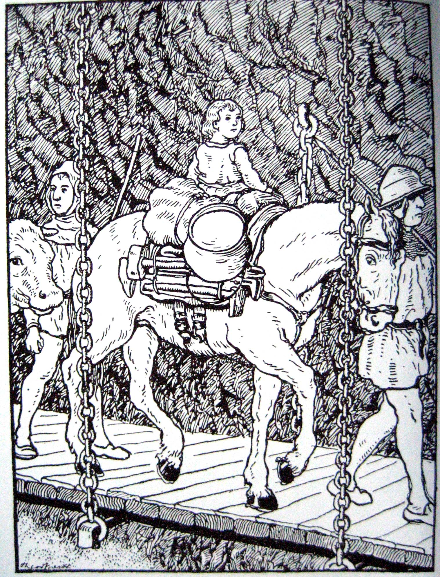 illustration of the Twärrenbrücke (the medieval bridle path across Schöllenen Gorge)